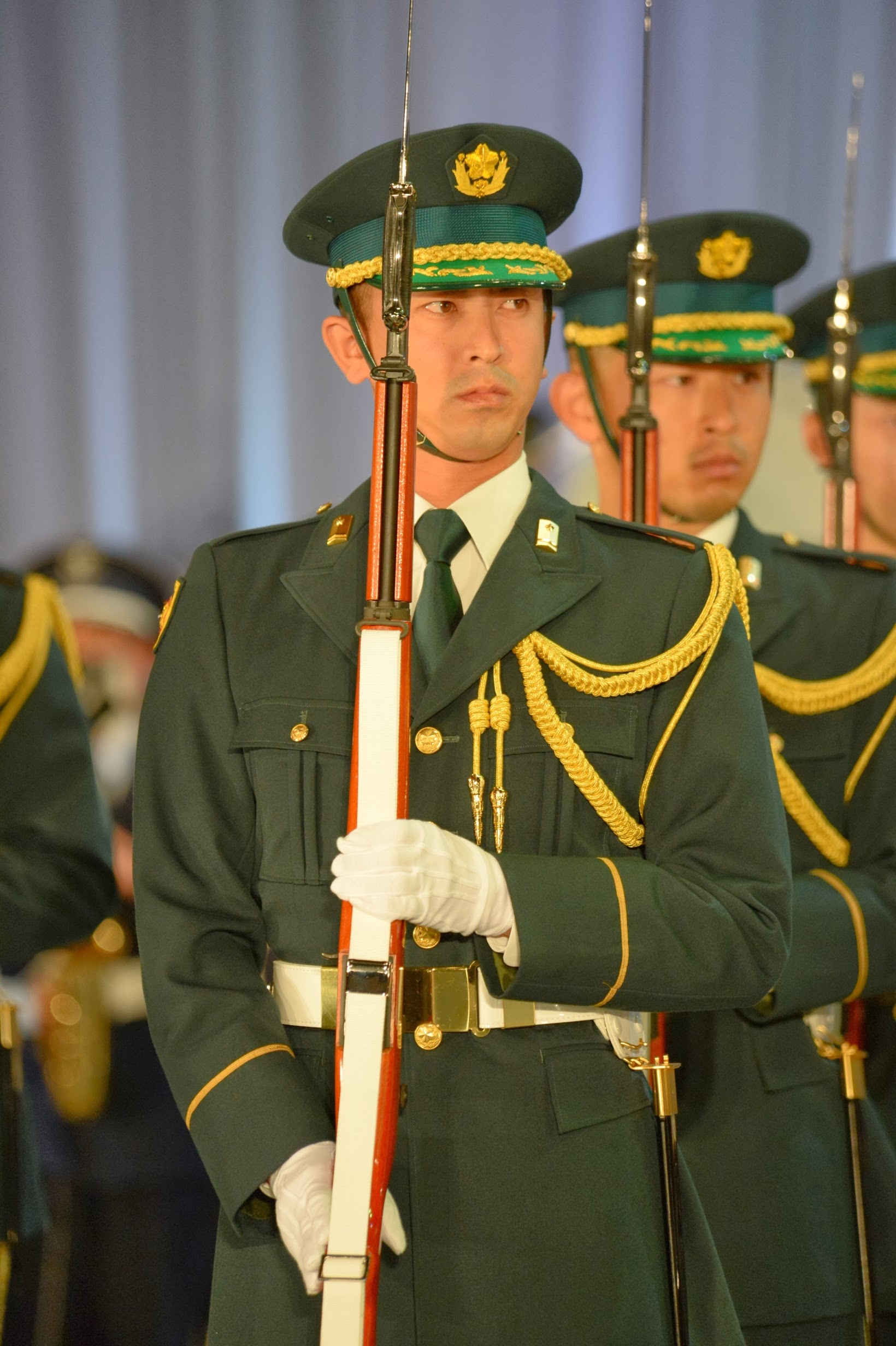 Title NOH_3953.JPG Album 平成25年度自衛隊音楽まつり Photographs by the Japan Ground Self-Defense Force